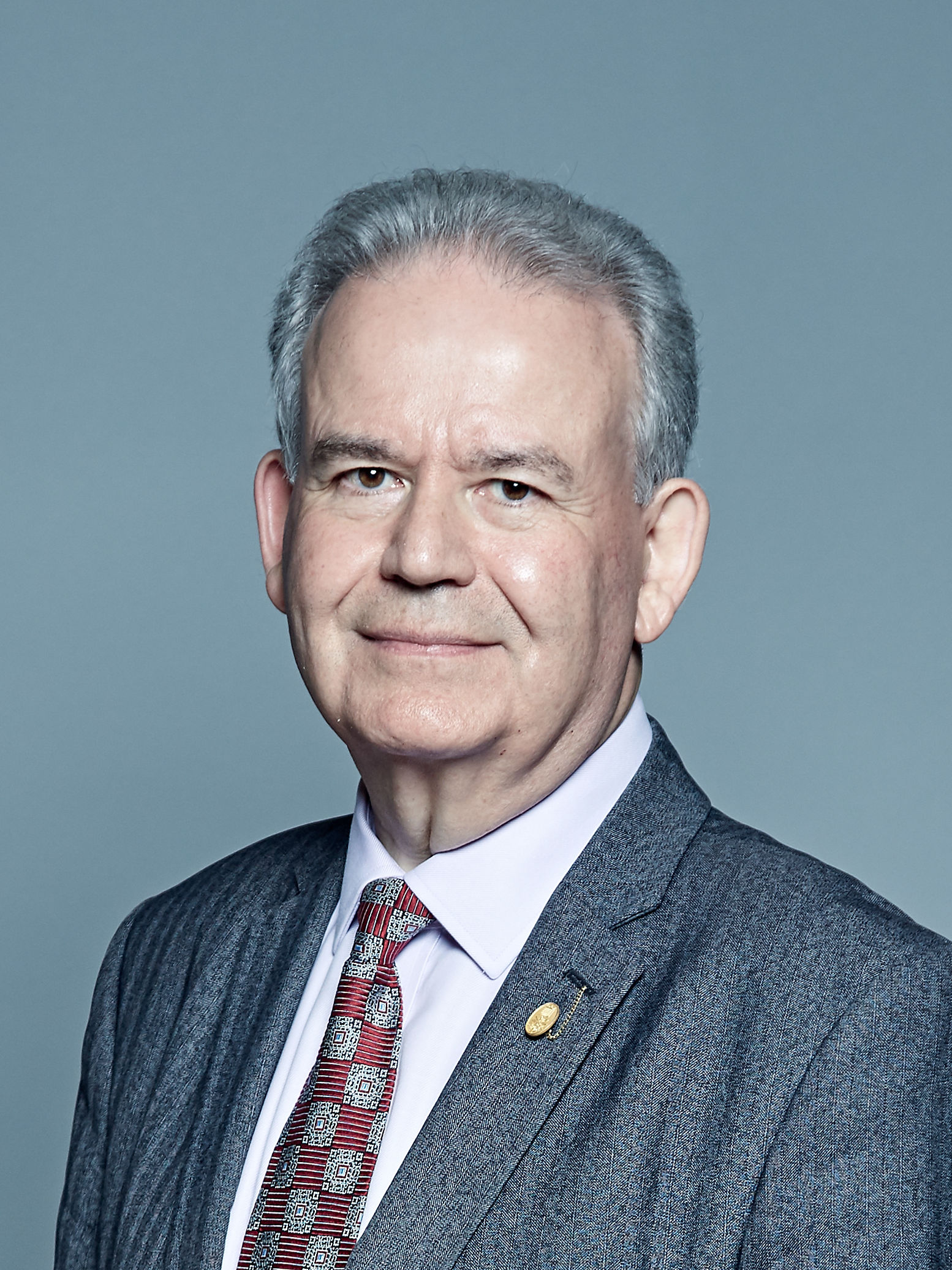 Official portrait photo of UK Member of Parliament